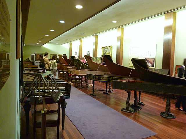 Museum of Musical Instruments